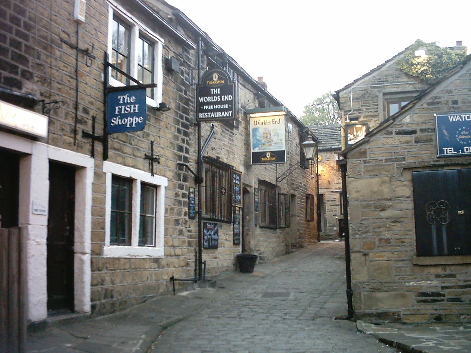 The World's End Public House in the ancient Booths Yard, off Lowtown, Pudsey, Leeds, West Yorkshire. April 2009.